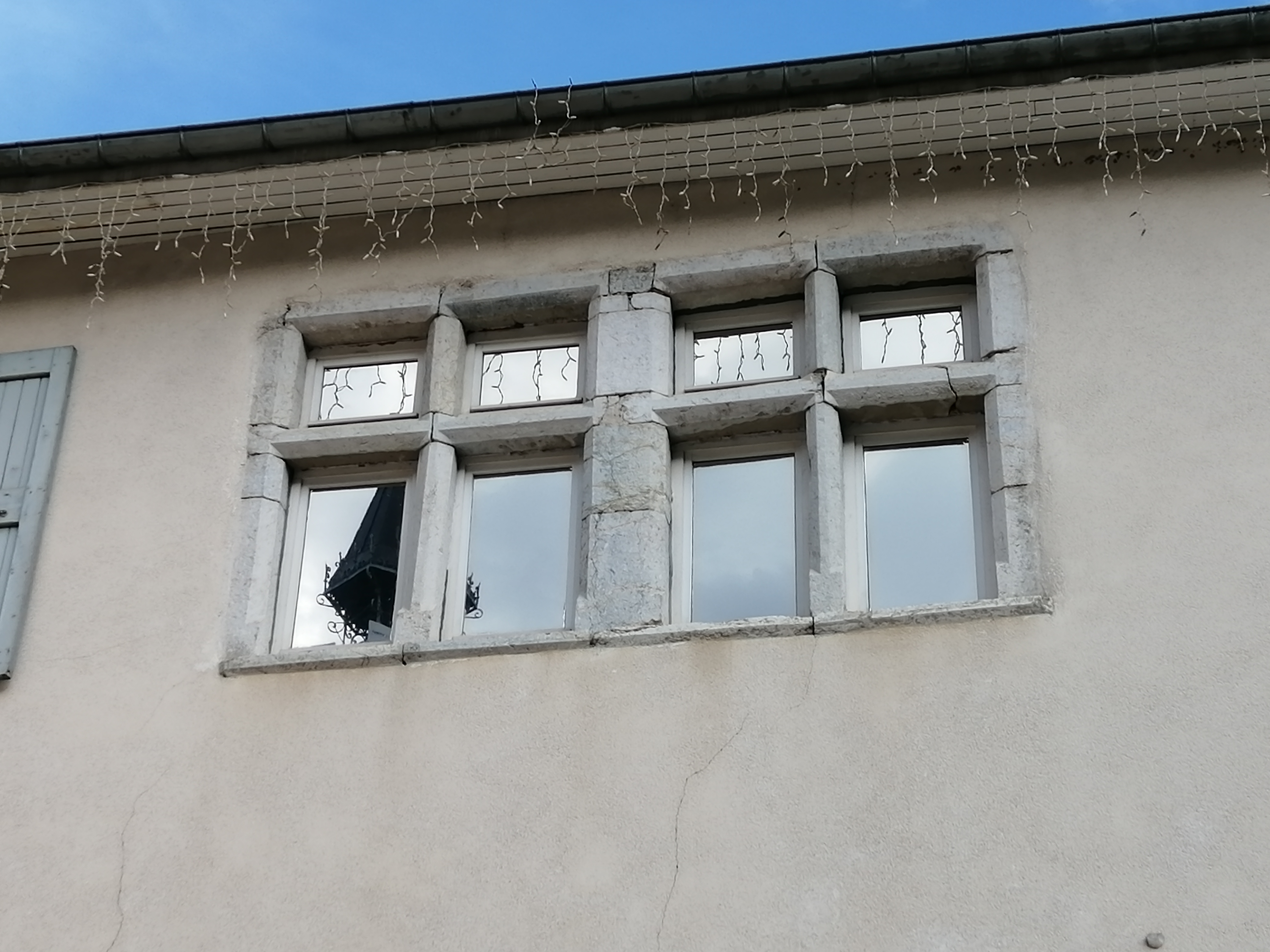 Mullioned Windows in Vif, France.